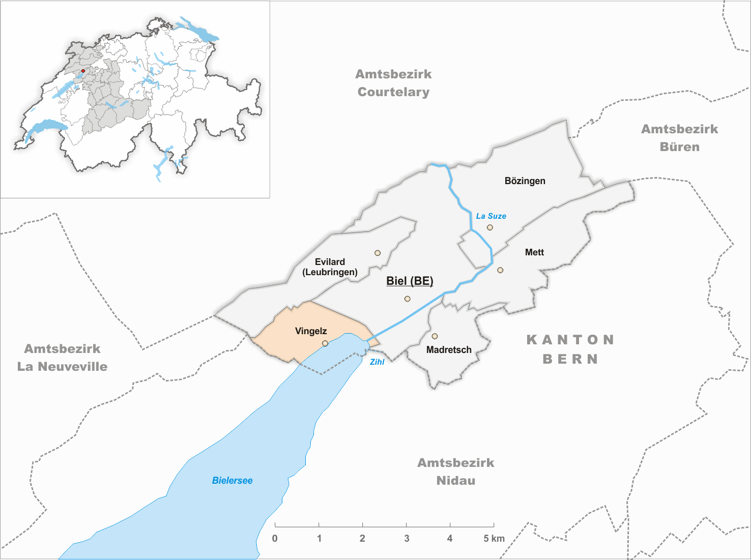 Municipality Vingelz